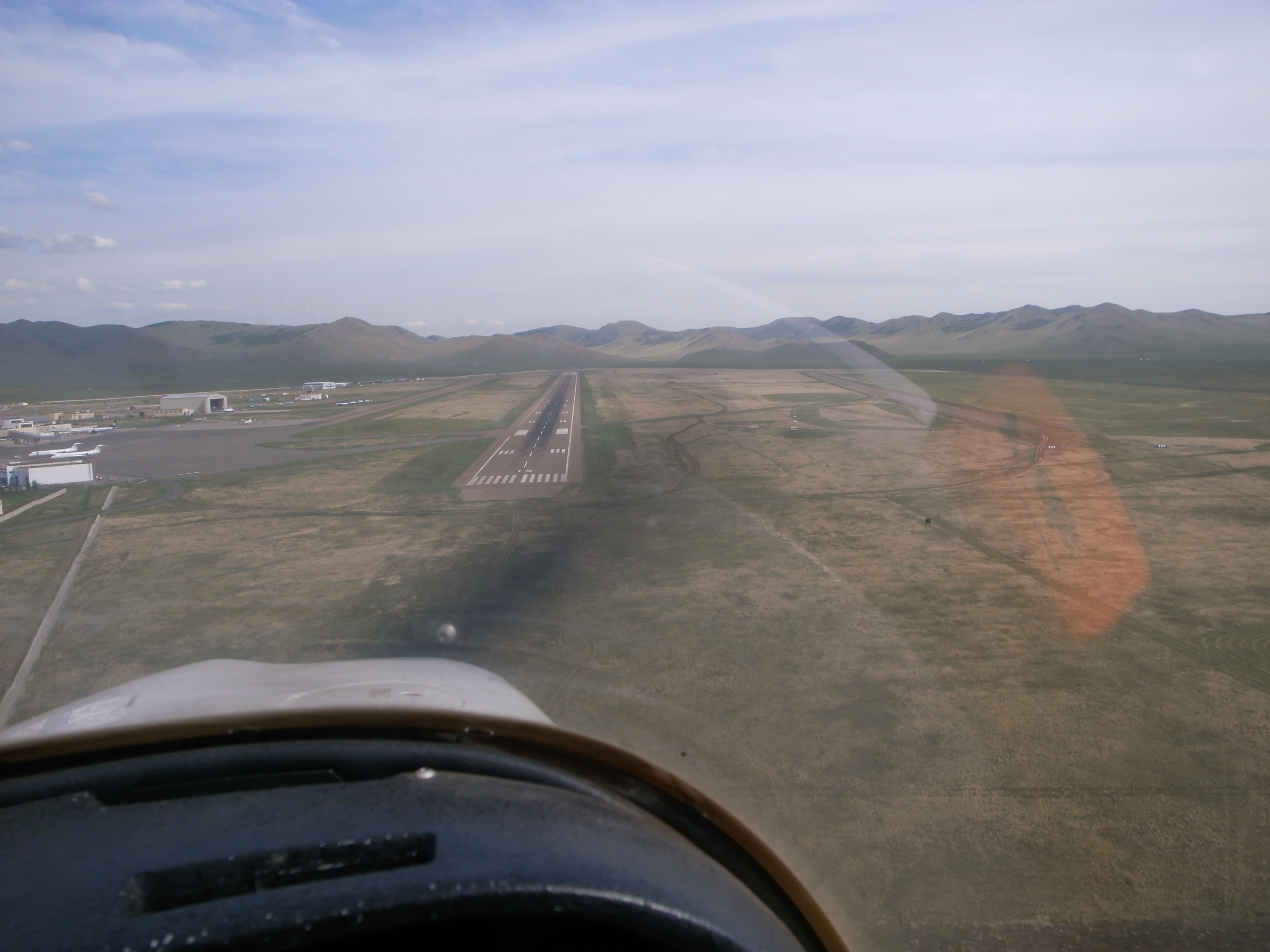 On final aproach to Chinggis Khaan International Airport, Mongolia. Taken from light aircraft, G-BIRT